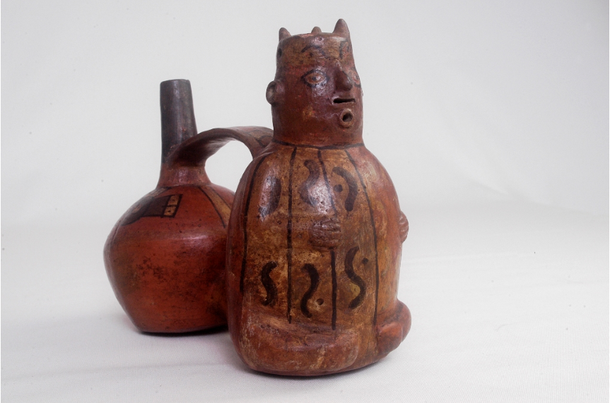 Globular flute with internal duct, collection of Museo Azzarini, Universidad Nacional de La Plata